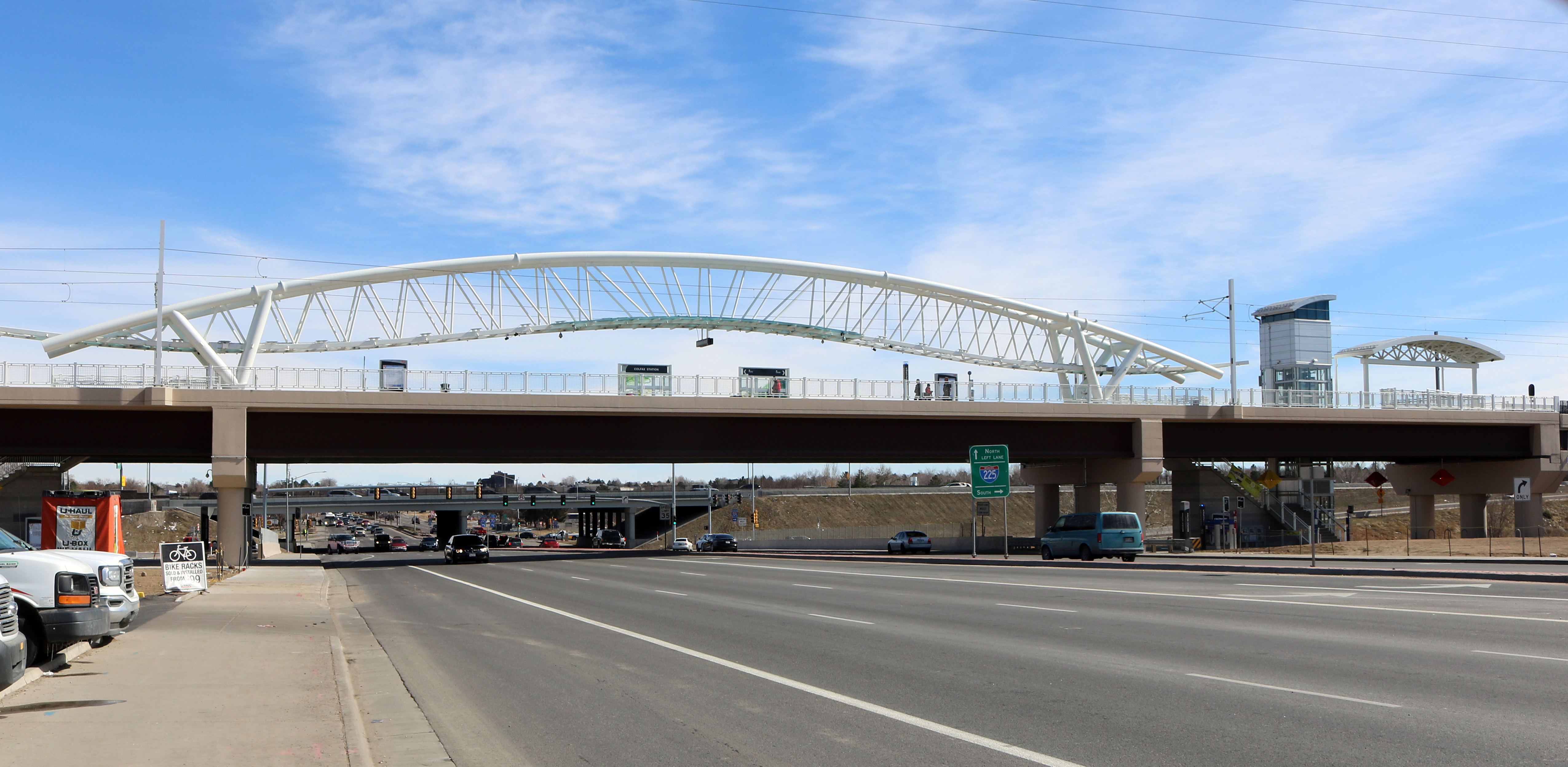 The RTD Colfax Station, located at 13800 East Colfax Avenue in Aurora, Colorado. The station is a stop on RTD's R-Line.